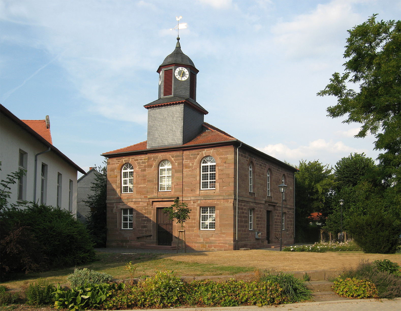 The church of Erksdorf a village in the area of Stadallendorf